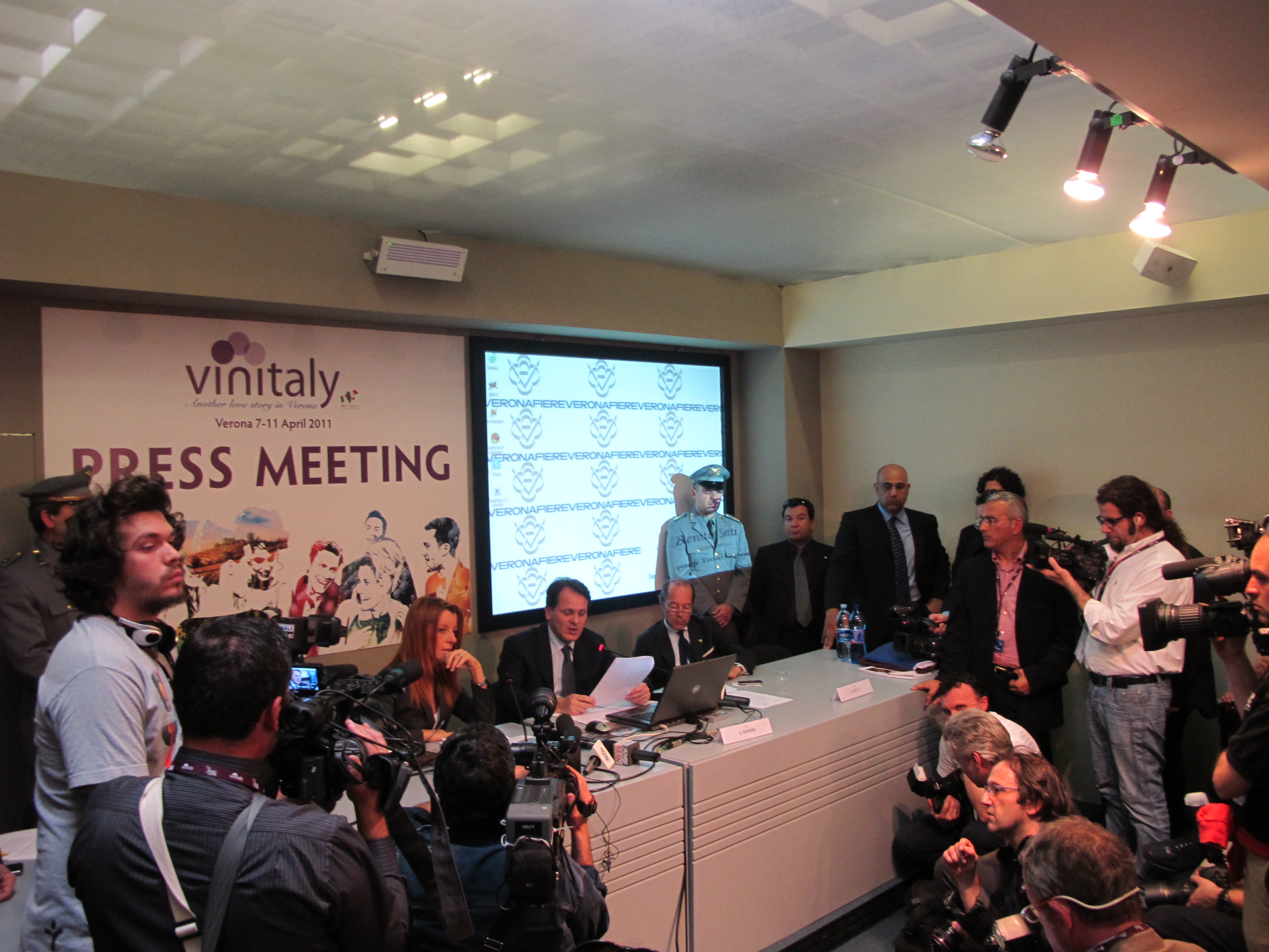 One of the press meeting and media publications at the Italian wine expo of VinItaly in Verona.